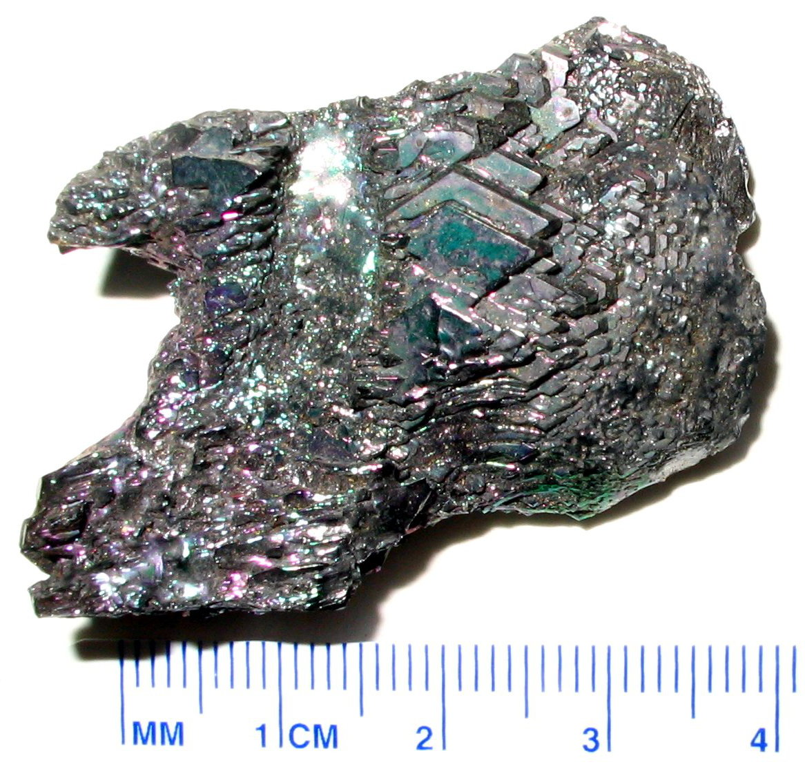 A chunk of silicon carbide acquired from Carbo-Sil by Steve Karg. Photo by Steve Karg, adjusted using the GIMP.